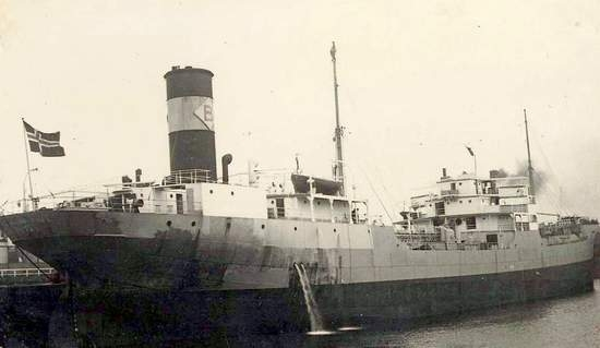 Norwegian motor tanker M/T Nina Borthen in 1930.